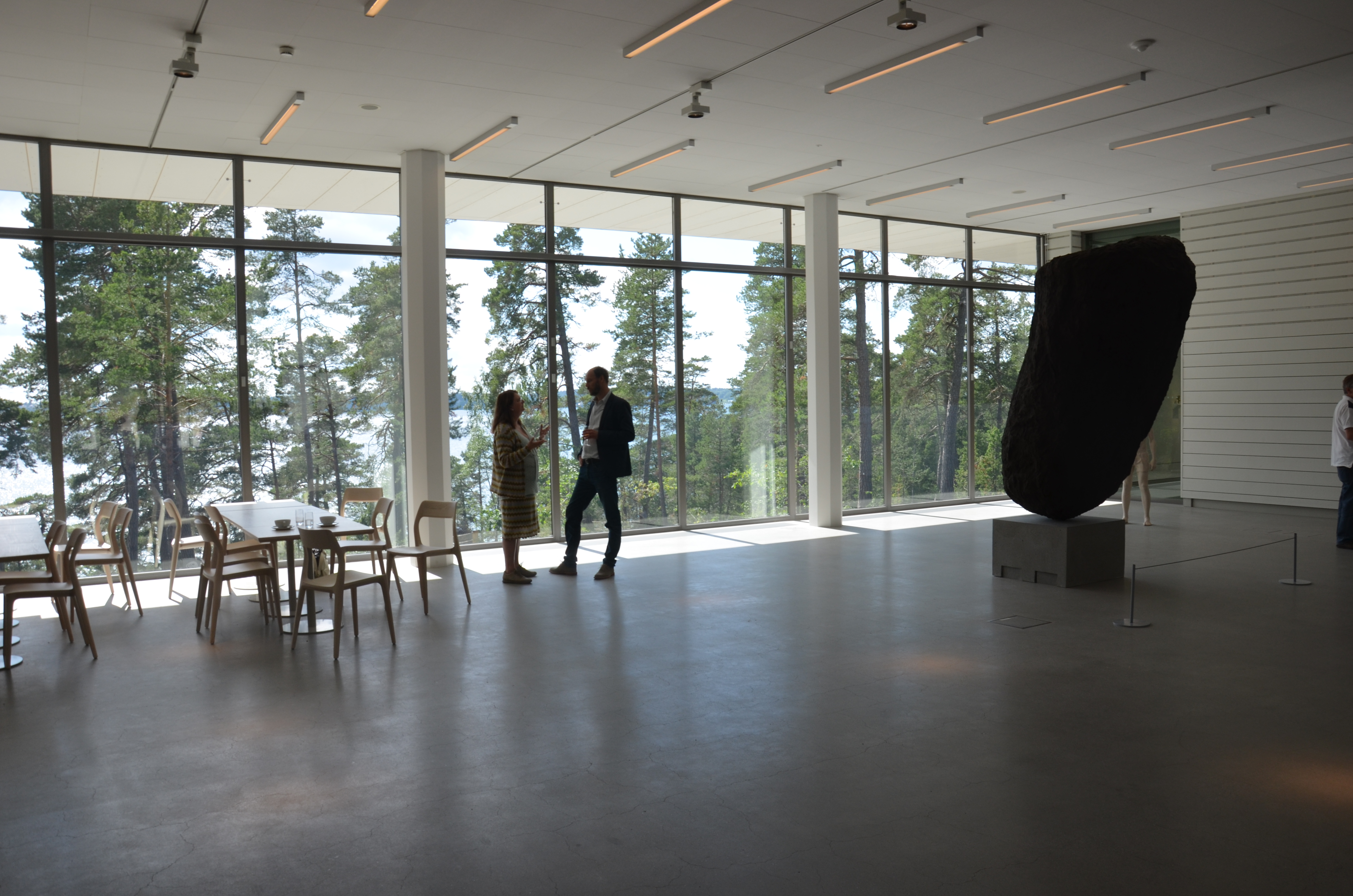 Konsthallen Artipelag i Gustavsberg. Utsikt mot Baggensfjärden